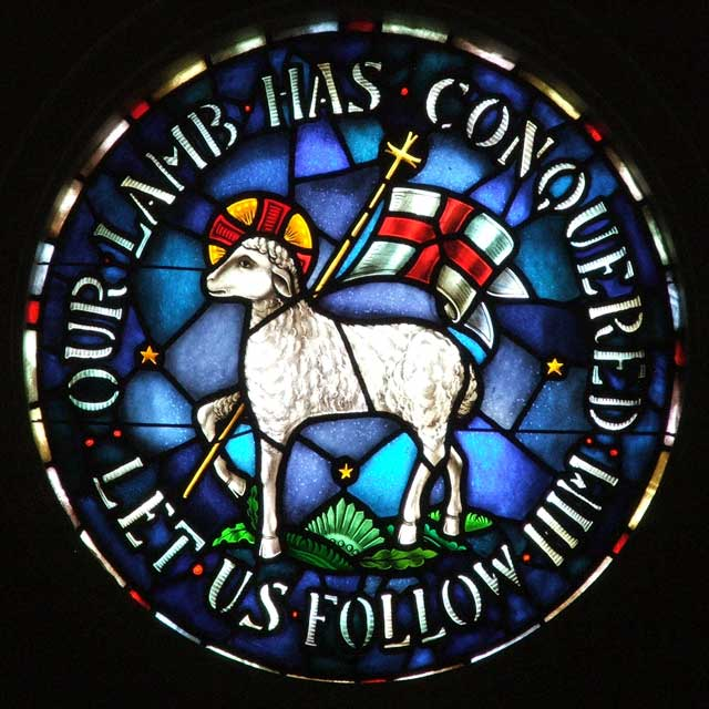 Moravian Seal, or Agnus Dei, stained glass window in the Rights Chapel at Trinity Moravian Church, Winston-Salem, NC